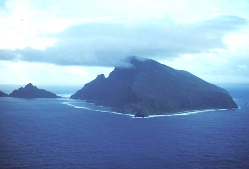 Aerial view of Olosega and part of Ofu Islans, American Samoa